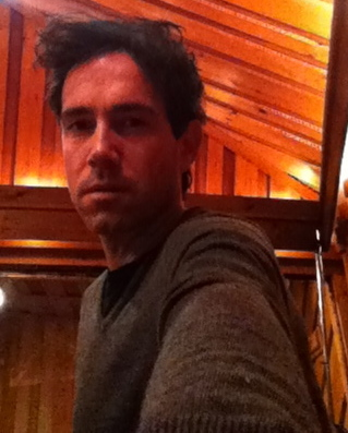 This photo is of pedro yanowitz in Avatar studios Nyc